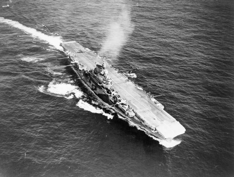 The Royal Navy during the Second World War HMS INDOMITABLE sailing through the Indian Ocean photographed from one of her aircraft. The ship was adopted by the city of Belfast.